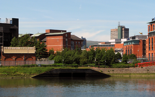 Confluence of the Blackstaff and River Lagan. The Blackstaff River was once little more than a mountain burn that ran down through west Belfast and on through the town centre before entering the Lagan at this spot. The industrial revolution resulted in the river being used as a dumping ground for waste, leading it to become a polluted and stinking eyesore. Much of it was culverted underground in the late 19th and early 20th centuries. The final section before it entered the Lagan was still above ground and ran through the former gasworks site. By the late 1980s it was, so I was told, the most polluted river in western Europe. The land here was so polluted as a result of the gasmaking process that, when redeveloped, housing was forbidden on the site and it now only contains offices and a hotel. The Blackstaff, thankfully now pollution free, was culverted through a huge underground concrete pipeline and into the Lagan as shown. See also 1806043 for a view of an unculverted section a few miles away.